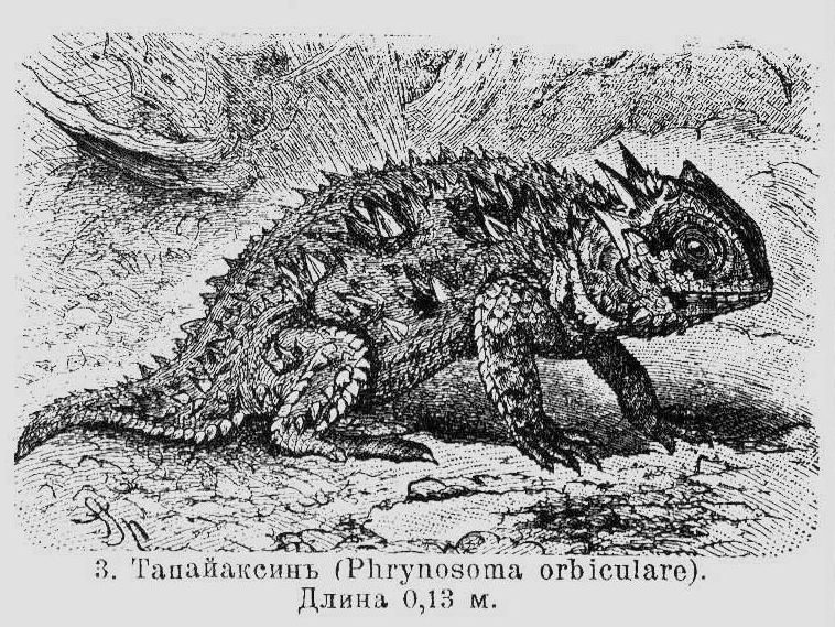 Illustration from Brockhaus and Efron Encyclopedic Dictionary (1890—1907)